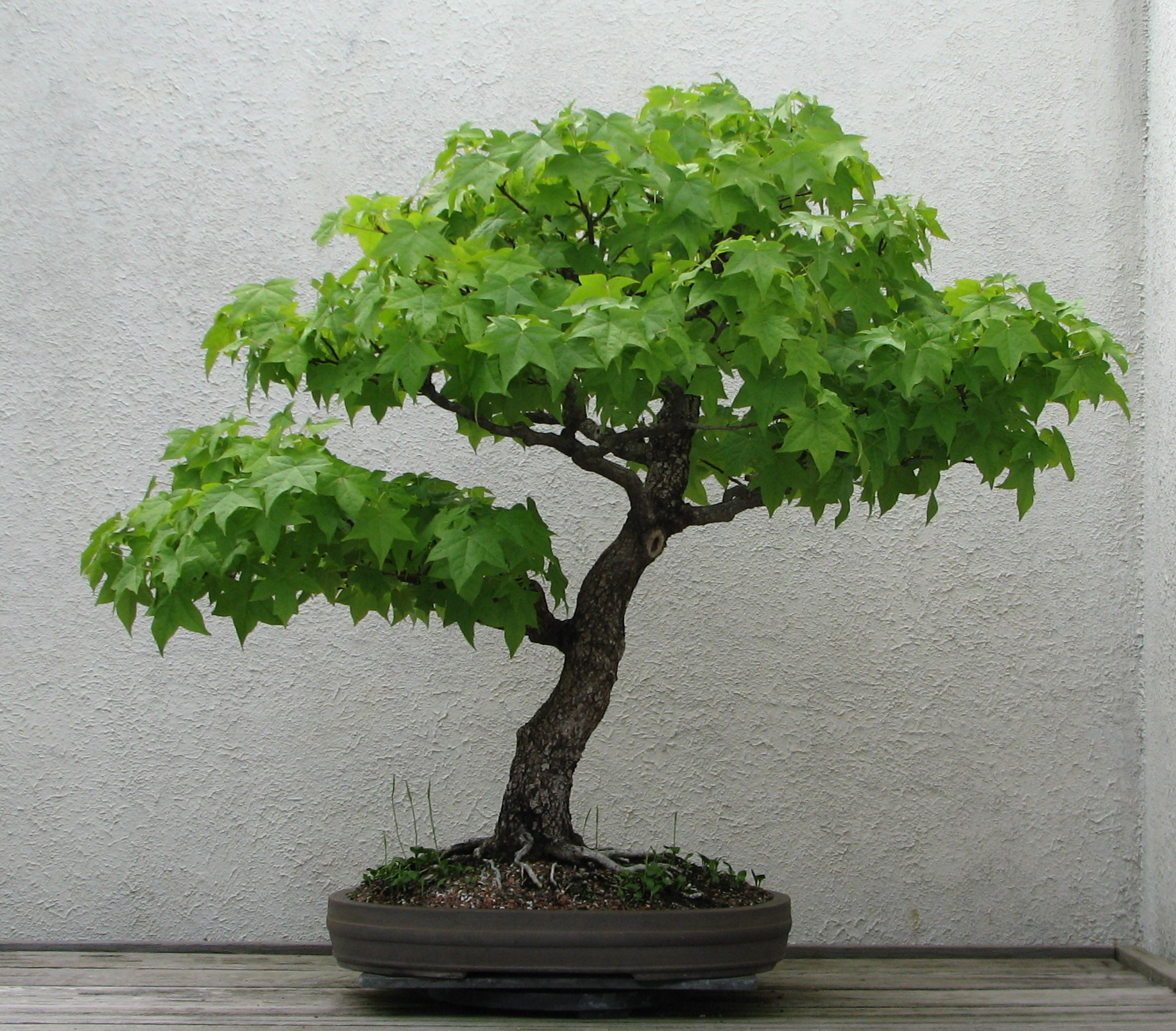 A Sweet Gum (Liquidambar stryaciflua) bonsai on display at the National Bonsai & Penjing Museum at the United States National Arboretum. According to the tree's display placard, it has been in training since 1975. It was donated by Vaughn L. Banting. This is the "back" of the tree.